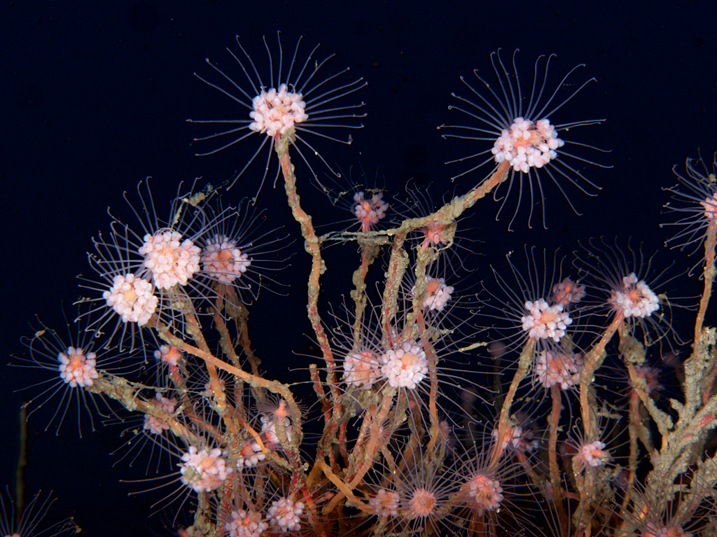 The hydroid Tubularia indivisa, fertile, Gulen Dive resort, Norway.